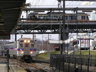 A Norristown High Speed Line train above a Manayunk/Norristown Line train at Norristown Transportation Center in February 2006